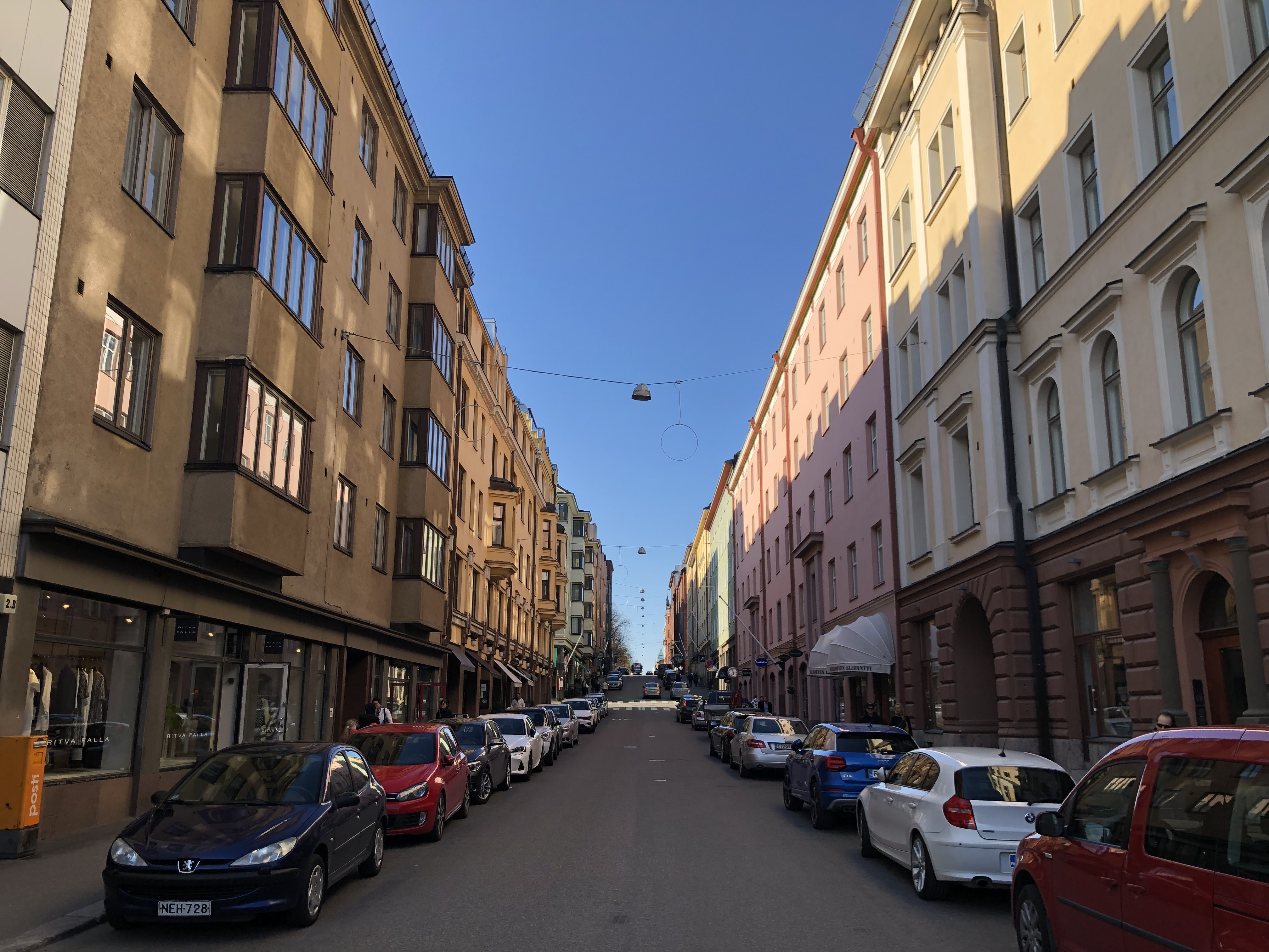 Korkeavuorenkatu in May 2019 in Helsinki, Finland.